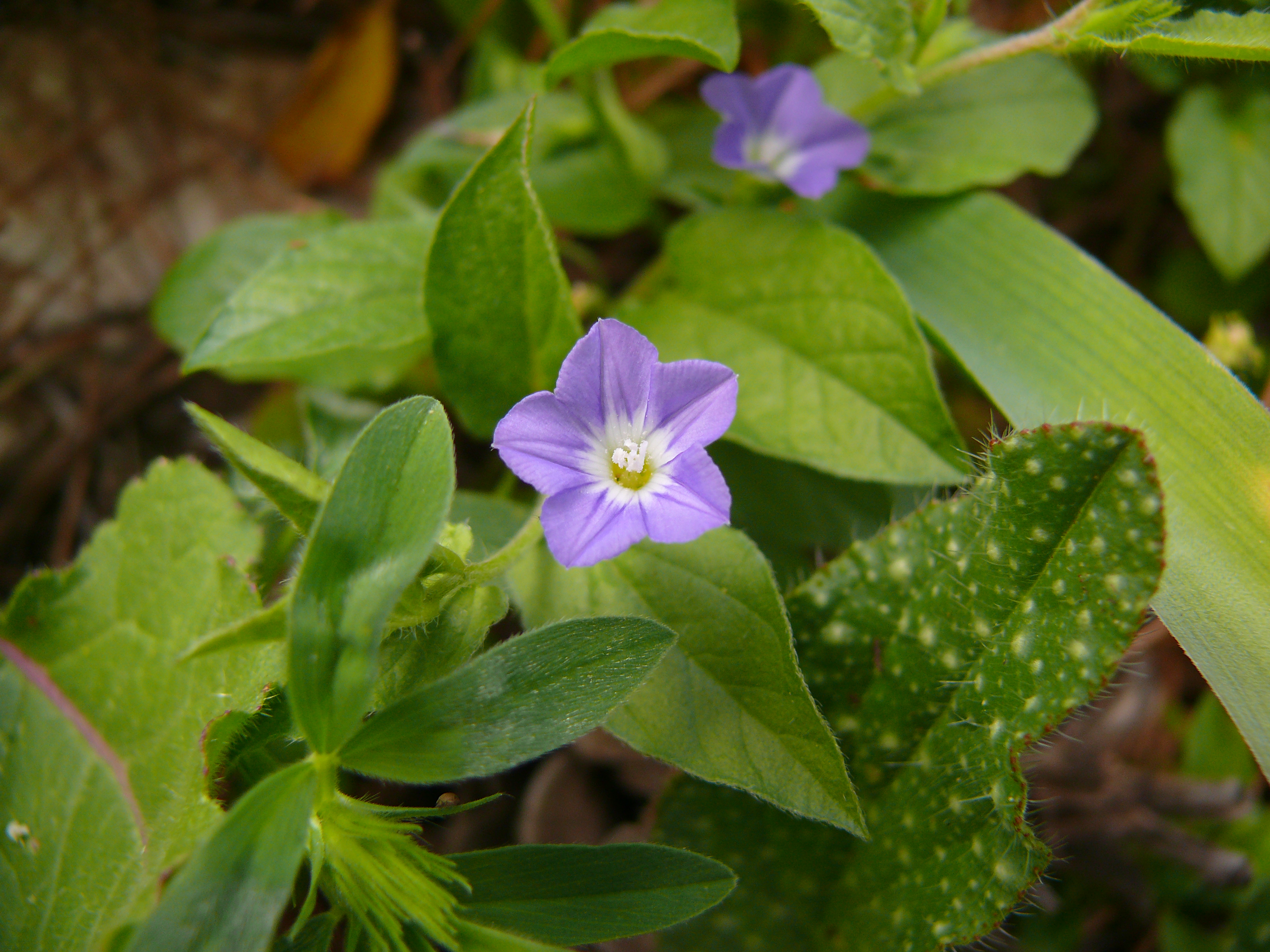 Convolvulus pentapetaloides